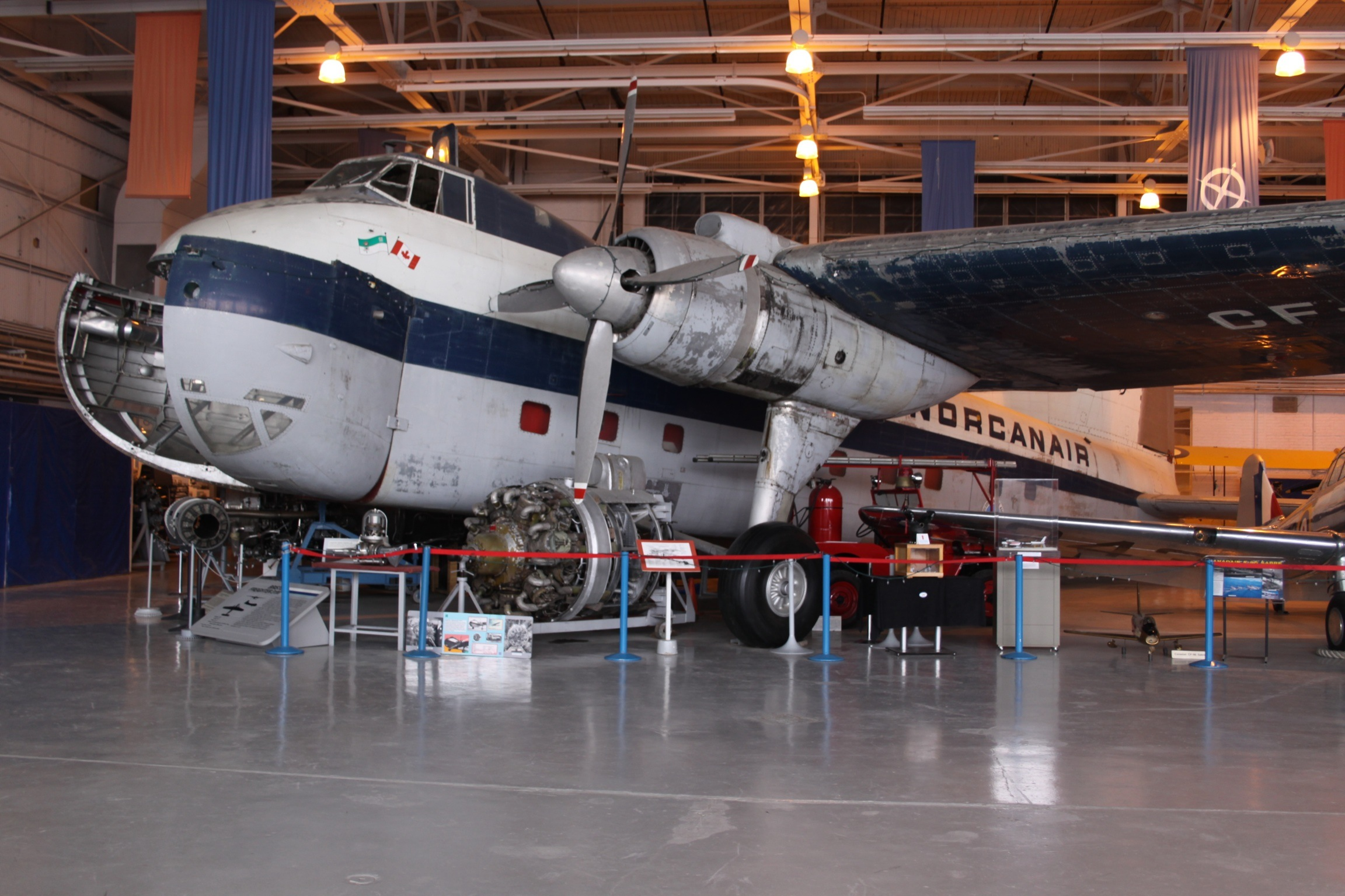 At Winnipeg James Armstrong Richardson International